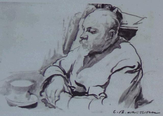 Nikolay Sklifosovskiy by Zygmunt (Zyga) Waliszewski